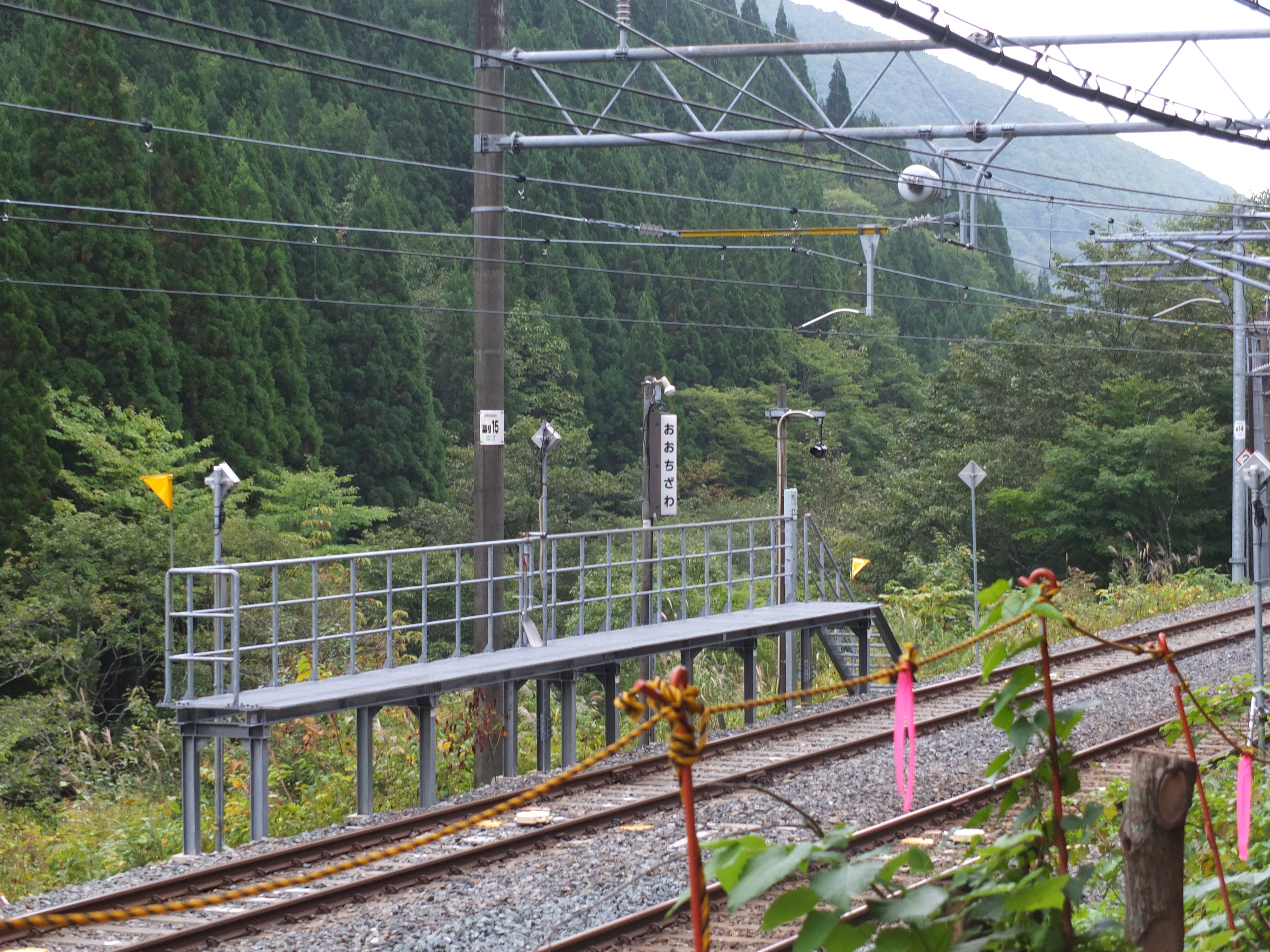 Ochizawa passing loop on the JR Tazawako Line in Shizukuishi town, Iwate district, Iwate prefecture, Japan